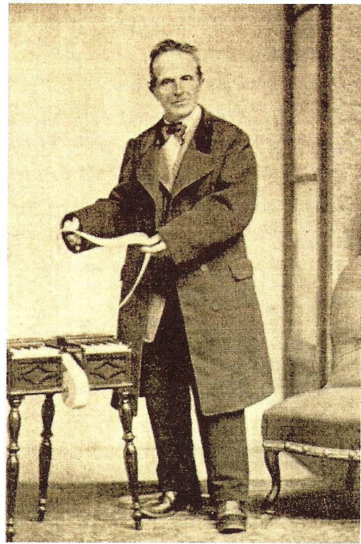 Photograph of prof. Antonio Michela Zucco, the inventor of the Michela stenographic system.